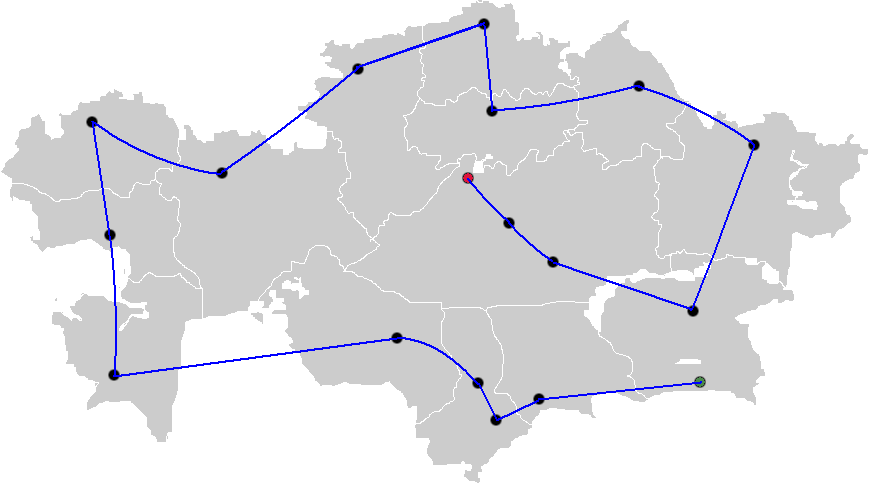 The torch relay map of 2011 Asian Winter Games